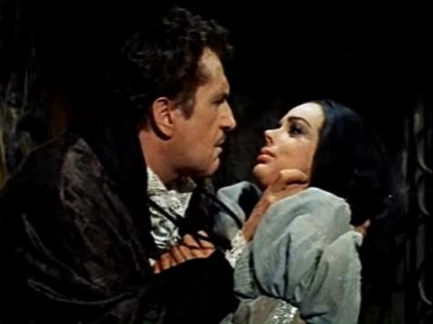 Vincent Price and Barbara Steele in The Pit and the Pendulum (1961) - trailer (cropped screenshot)